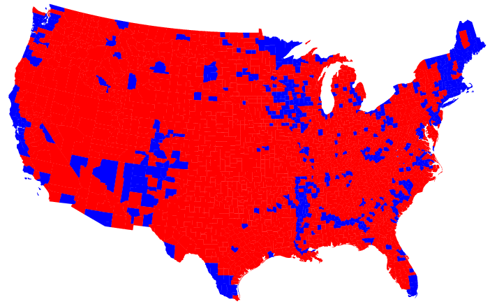 Gastner map red blue by area by county